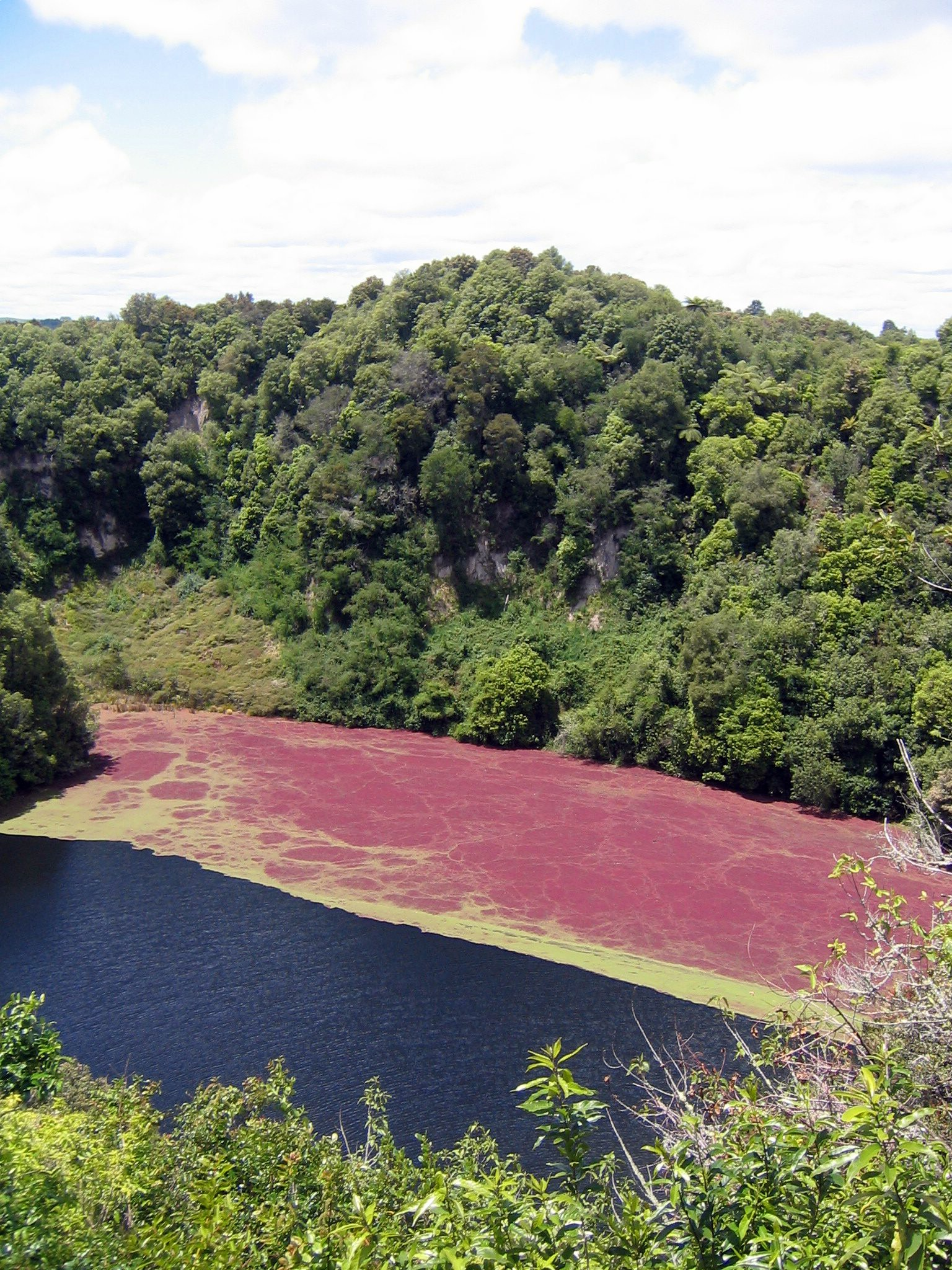 Souther crater lake in Waimangu Volcanic Valley near Rotorua, New Zealand. This is the first lake on the walk down the valley.